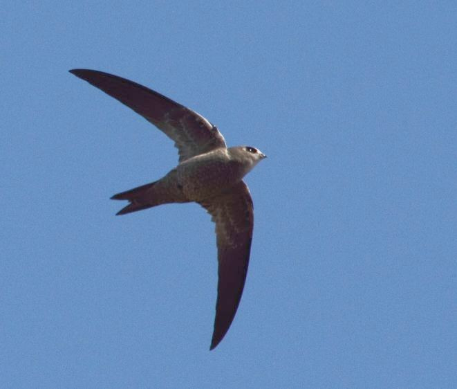 A Bradfield's Swift flying at Pofadder, Northern Cape, South Africa.